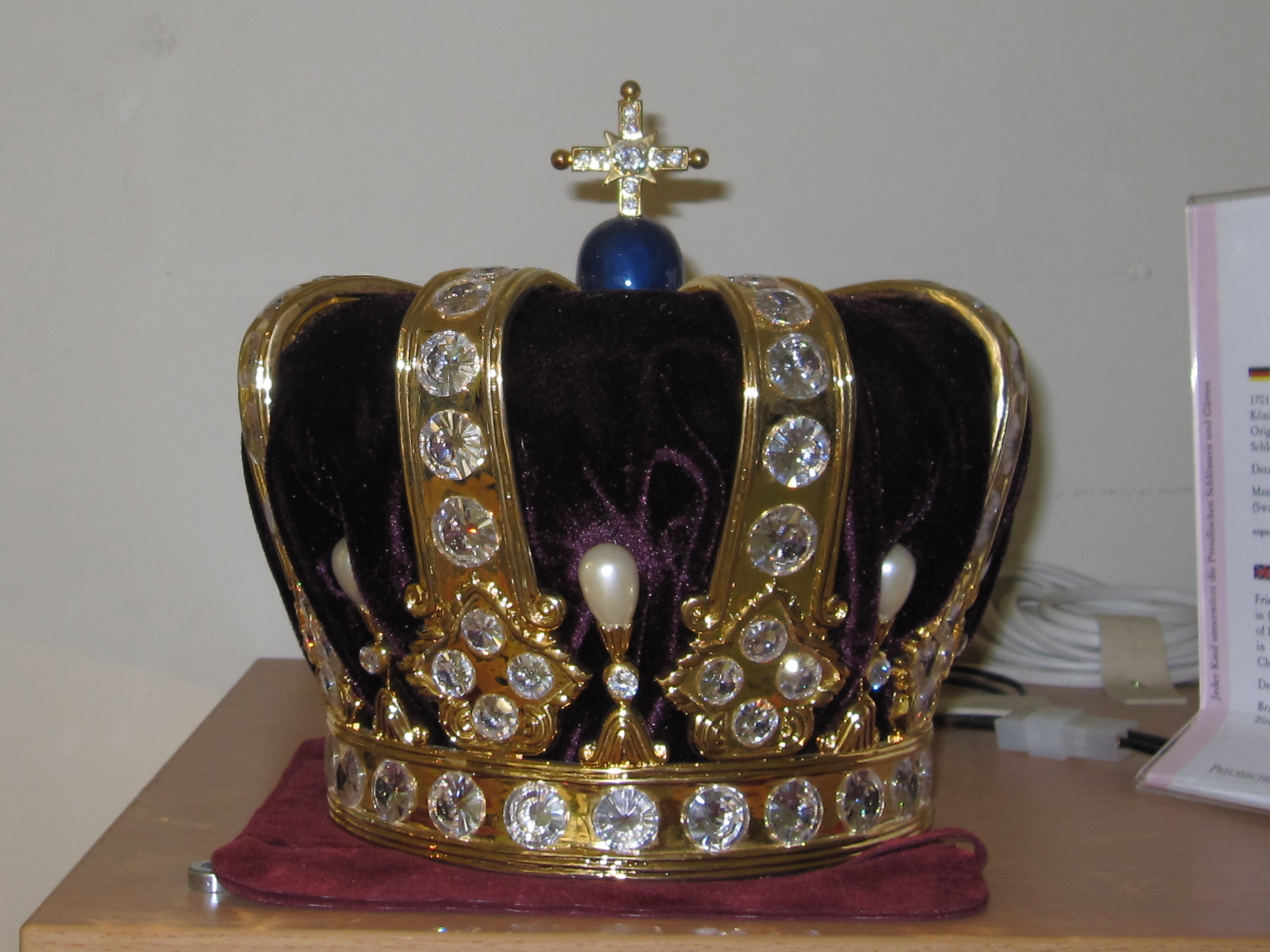 Not complete correct copy of the Crown of Friedrich I von Preußen, made as a souvenir for collectors. Details: Replica in the original size, 22 cm. Brass gold plated with 24 karat and zircons (Swarovski crystals).